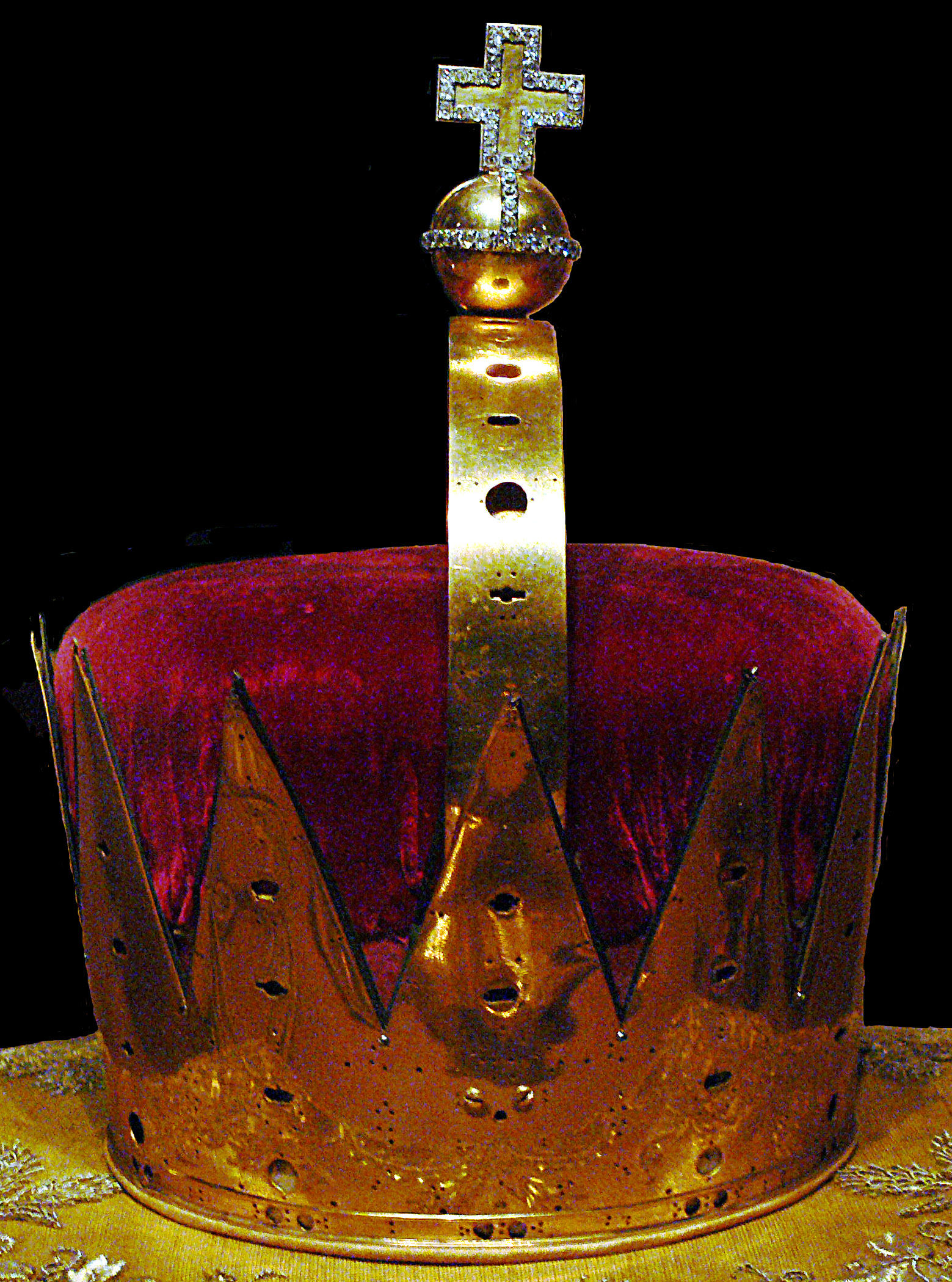 Metal frame of the Austrian archducal coronet used by Joseph II, Holy Roman Emperor.